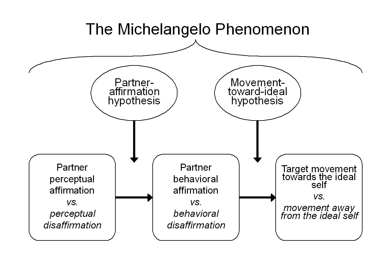 A figure depicting the Michelangelo Phenomenon.